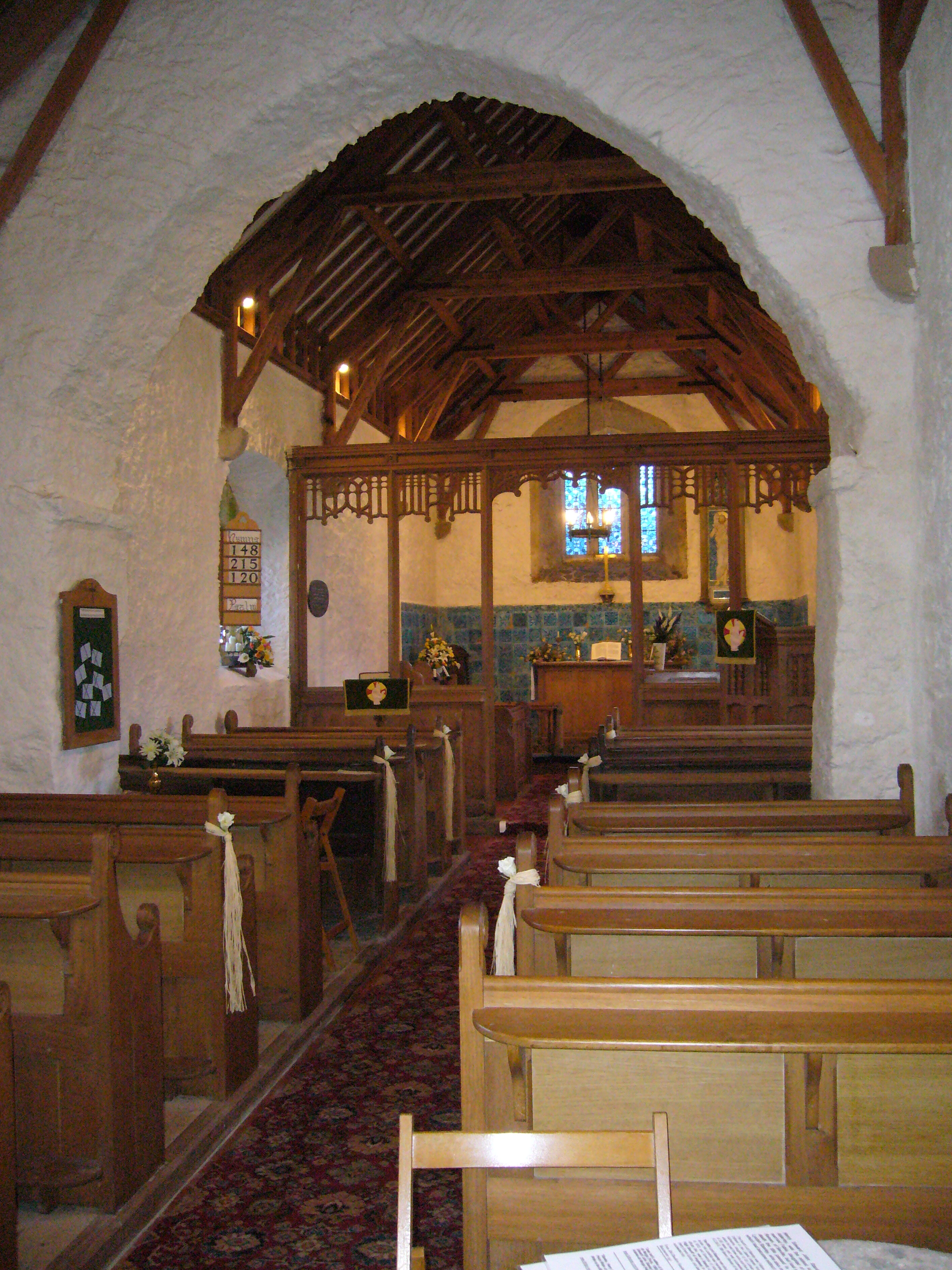 Interior of Llanbadrig Church on Anglesey. Required attribution is: Photo by Tom Oates.